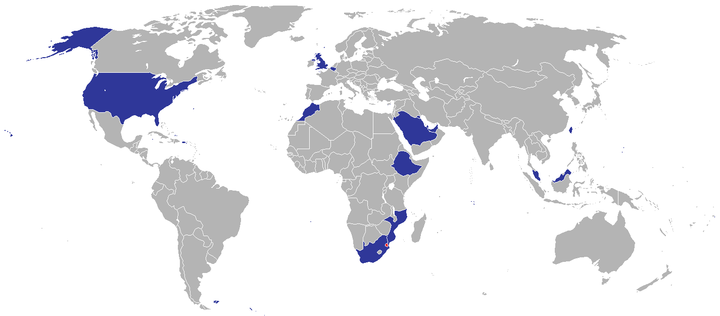 Map of Swazi diplomatic missions